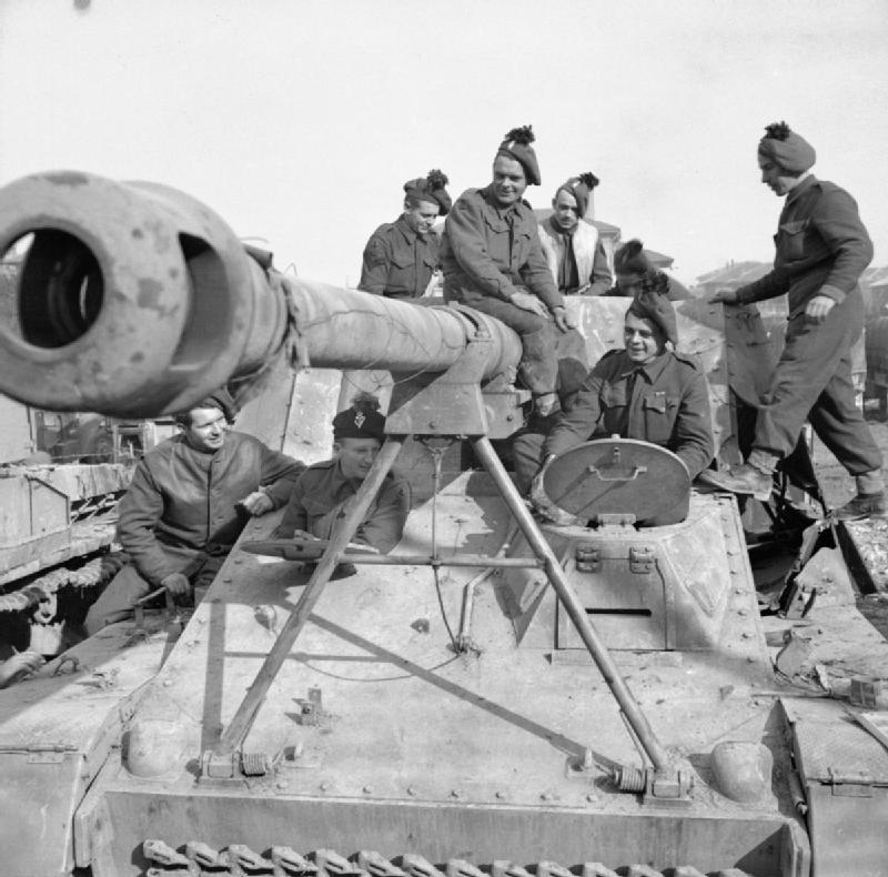 The British Army in Italy 1945 Troops clamber over a captured German 'Hornisse' 88mm self-propelled gun at an exhibition of enemy equipment in Forli, 30 January 1945.